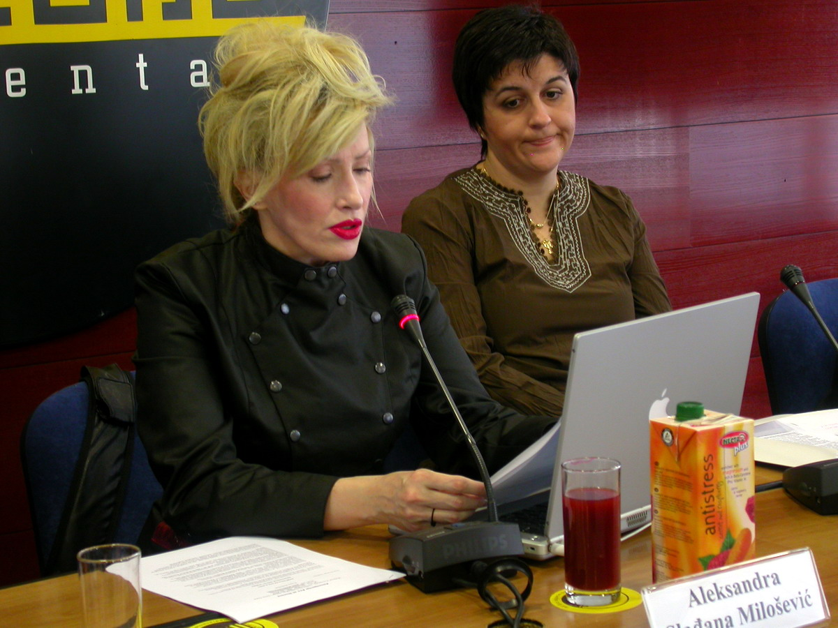 Aleksandra Slađana Milošević, srpska pevačica koja se smatra ikonom novog talasa osamdesetih u Jugoslaviji, danas i borac za ljudska prava